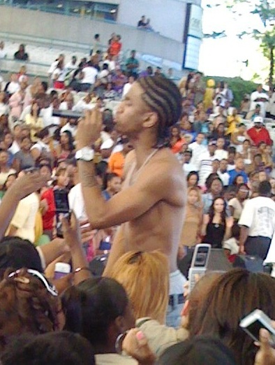 Trey Songz live in concert.